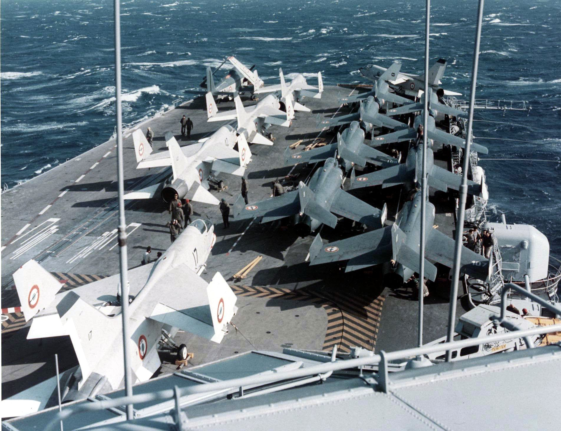 View of the forward flight deck of a French aircraft carrier, either Clemenceau (R98) or Foch (R99). Visible are five Vought F-8E(FN) Crusader, eight Dassault Étendard IV, and a single Breguet Alizé.